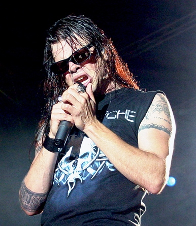 Todd La Torre performing at the Halfway Jam in Royalton MN. 10-28-2012. Photo by Michael B. Lindgren